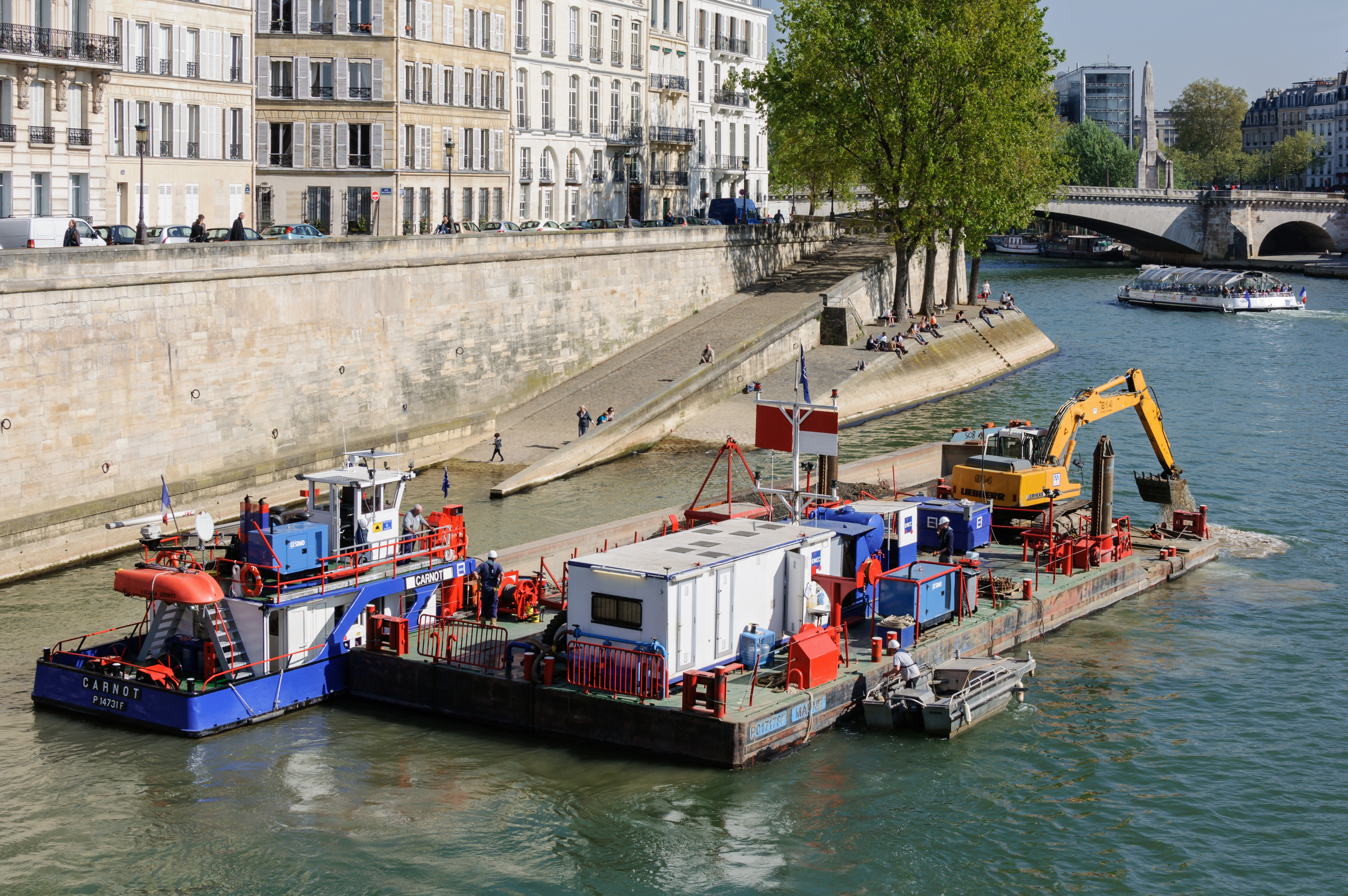 Dredging in the Seine river in Paris, with a pontoon boat, an excavator, a towboat and a barge.